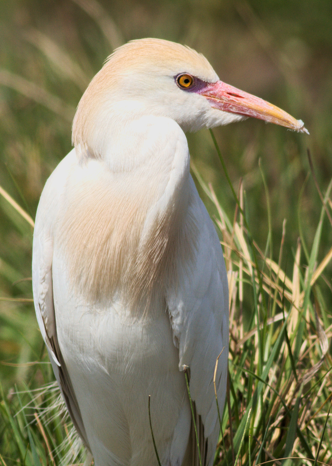 Cattle egret, Bubulcus ibis at Rietvlei Nature Reserve, South Africa